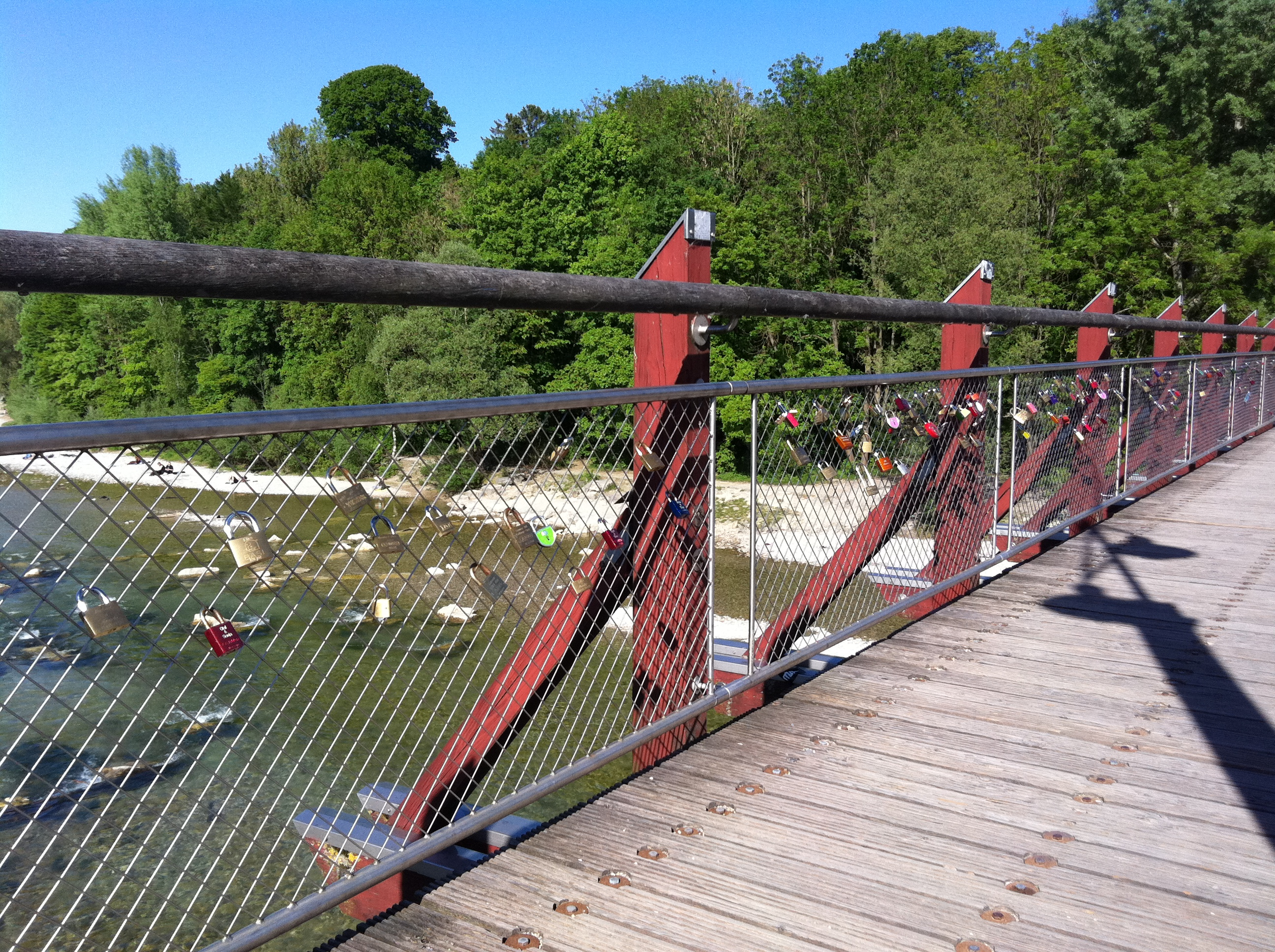 Love padlocks on the Tierparkstreetbridge in Munich